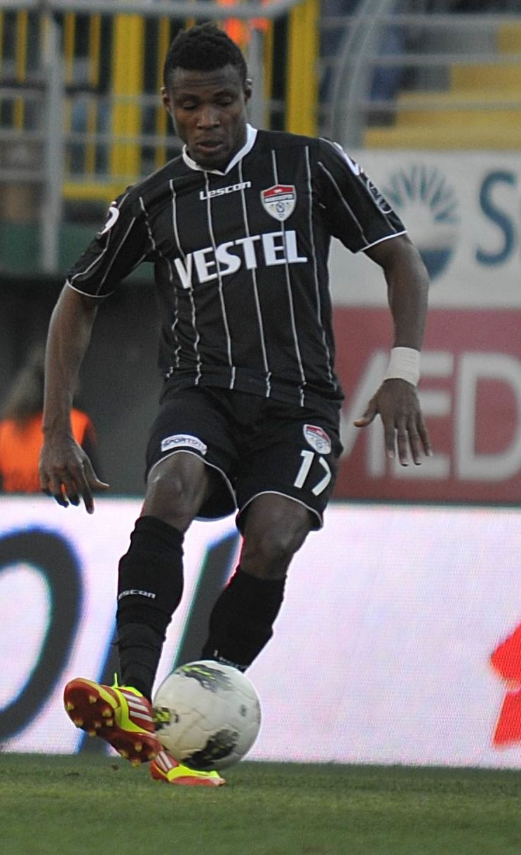 Photo:Koray Geçgel & Murat Özgen